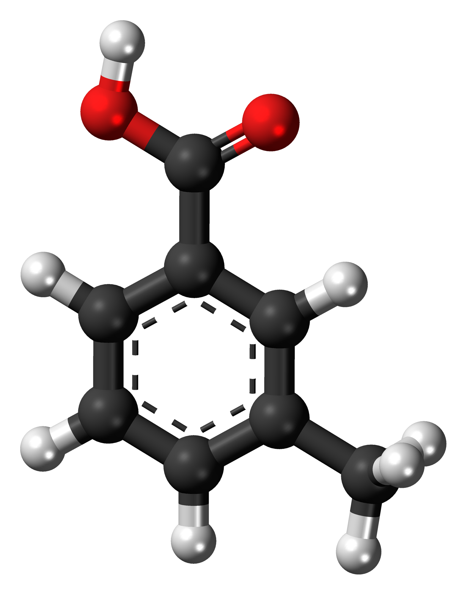 Ball-and-stick model of the m-toluic acid molecule, also known as 3-methylbenzoic acid, one of the three isomers of toluic acid. Colour code: Carbon, C: black Hydrogen, H: white Oxygen, O: red